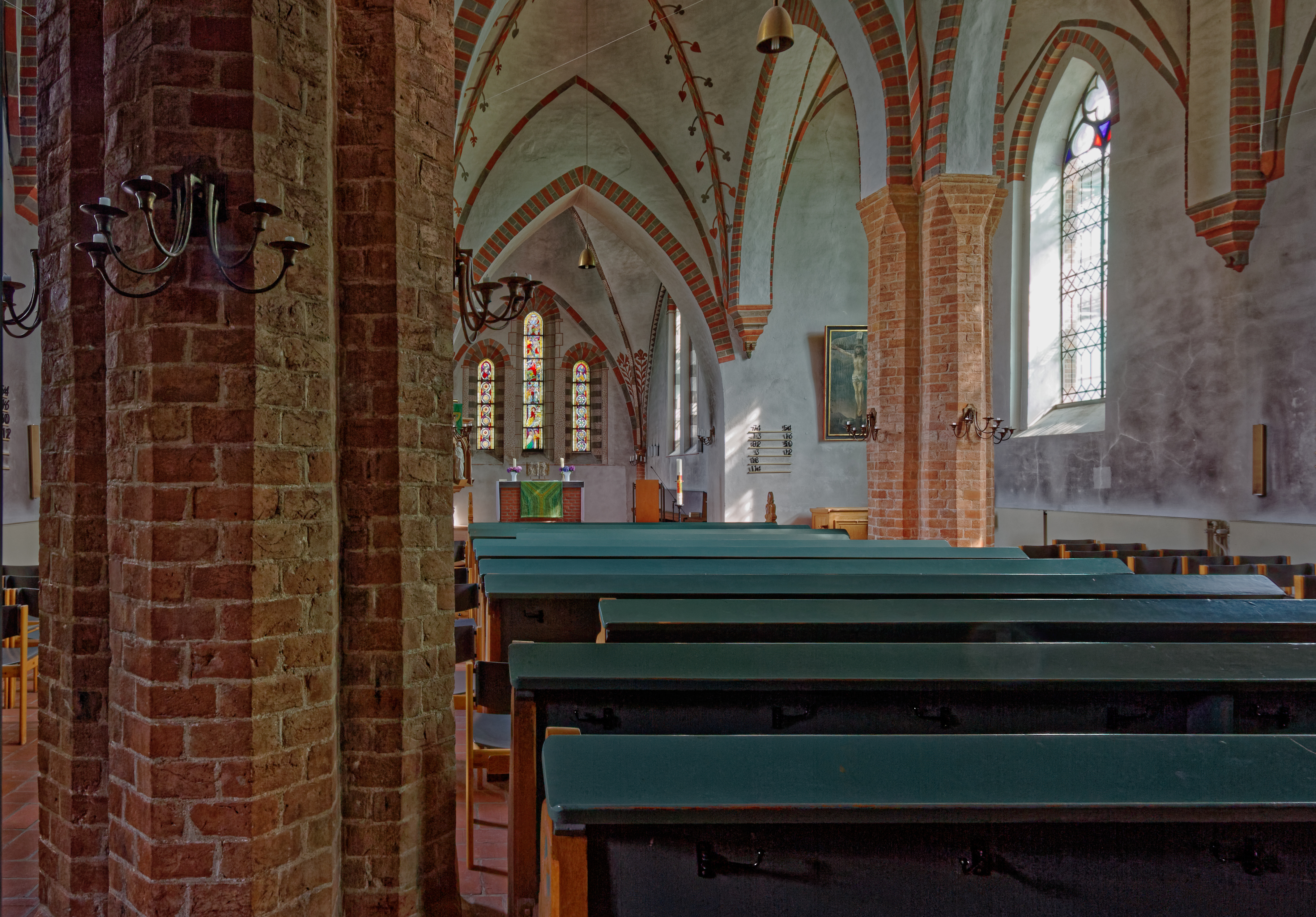 Interior of the Church in Breitenfelde